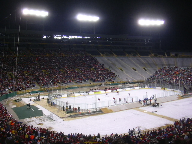 2006 NCAA National Champion Wisconsin Badgers Men's Hockey team defeating the Ohio State Buckeyes Mens Hockey team at an outdoor Hockey game at Lambeau Field - home of the NFL's Green Bay Packers.